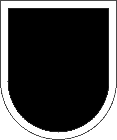 The beret flash of the United States Army's 5th Special Forces Group. It consists of a black shield-shaped embroidered item with a semicircular base 2 1/4 inches (5.72cm) in height and 1 7/8 inches (4.76cm) in width overall, edged with a 1/8 inch (.32cm) white border, and was approved on January 16, 1985.